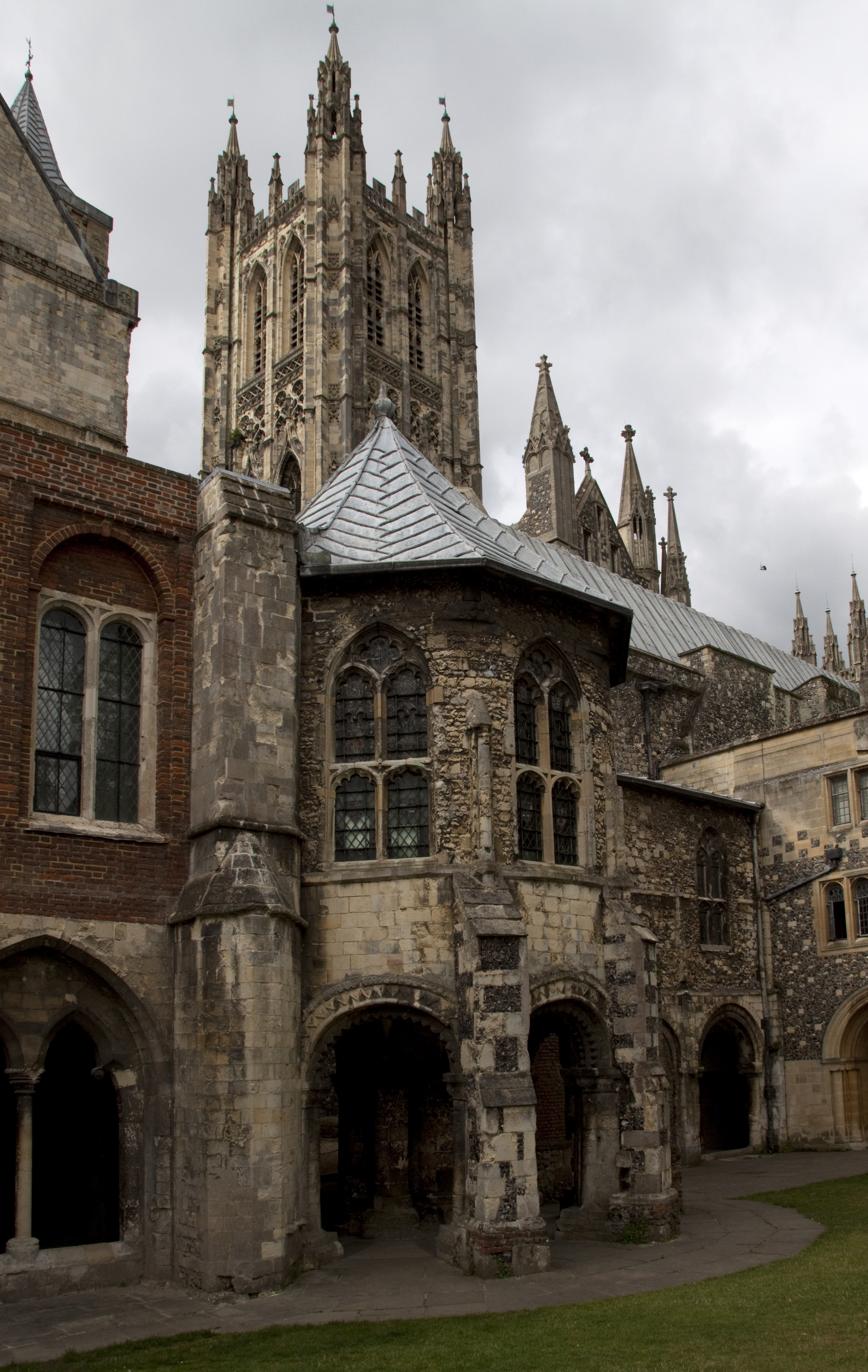 Canterbury Cathedral 6